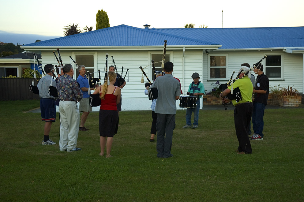 Twilight bagpipe band practice (26 January 2005.) Photograph by James Shook, who retains copyright and releases the image under the license shown below.